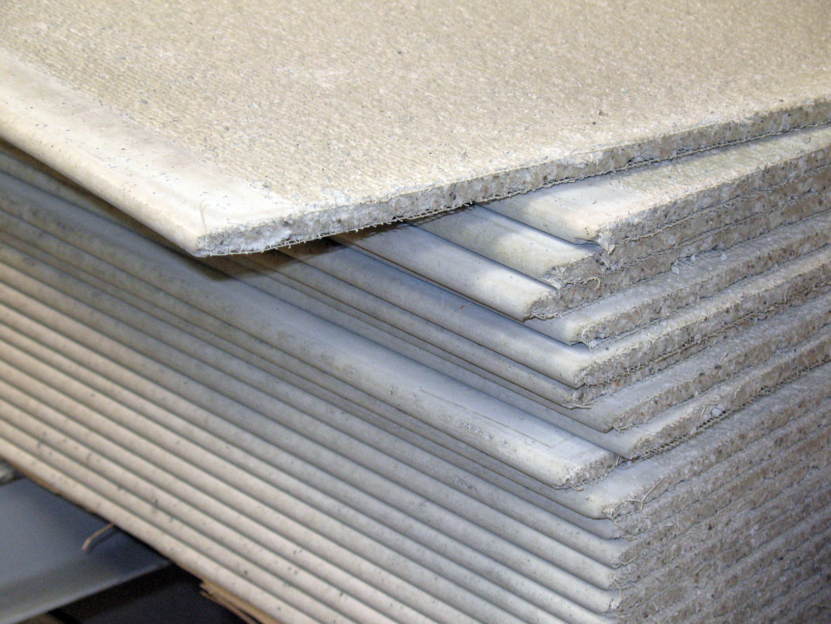 Cement board is composed of aggregated portland cement with a glass-fiber mesh on the surfaces. This 5/16 inch (7.9 mm) thick cement board is designed as an underlayment for tile floors. These are 3 by 5 foot (91 by 152 cm) sheets manufactured by the United States Gypsum Company under the DUROCK brand name. Photo by Michael Holley, April 2008. Taken with a Canon PowerShot A630 (1/60 second and F/3.5) with on camera flash.